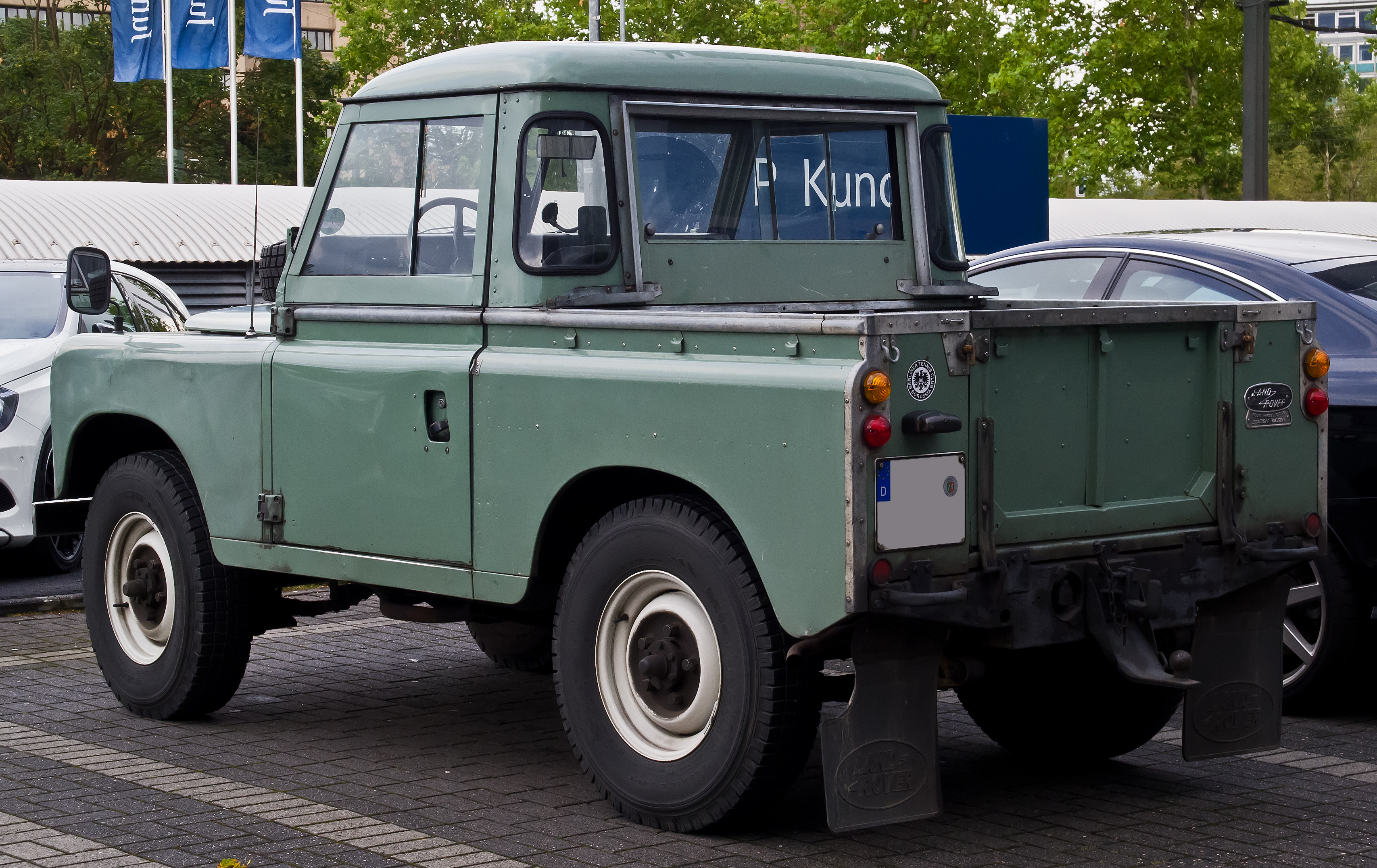 Land Rover Series III Pick Up.